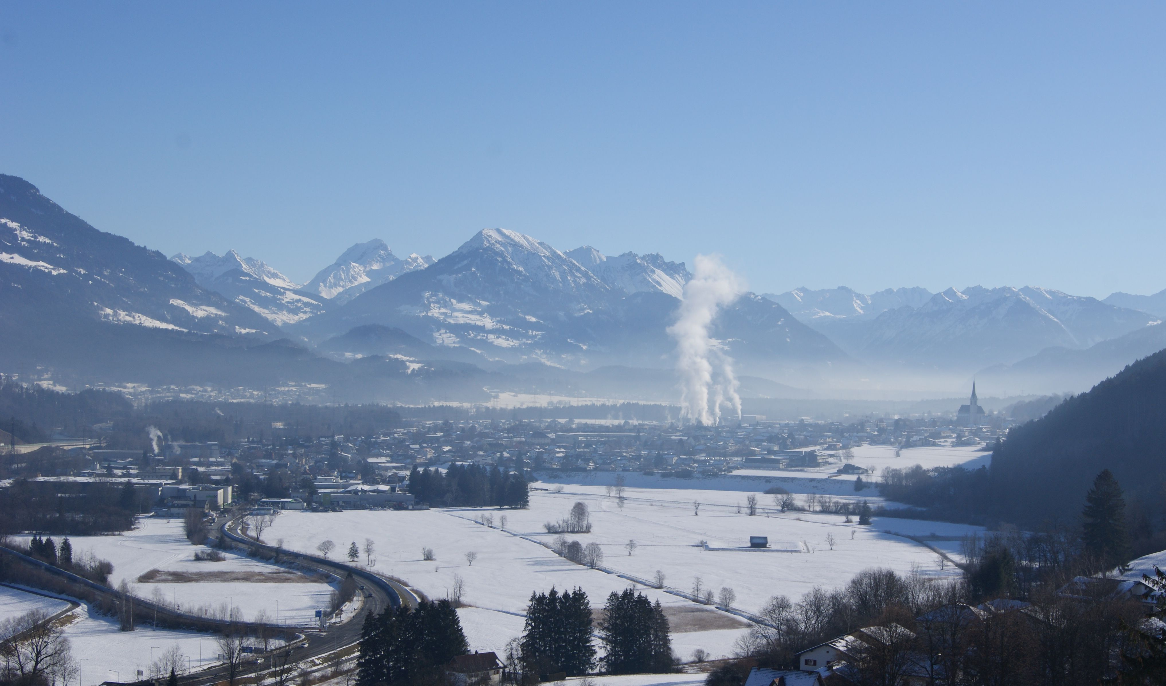 Frastanzer Ried (bog) in Frastanz, Vorarlberg, Austria. View into Walgau.